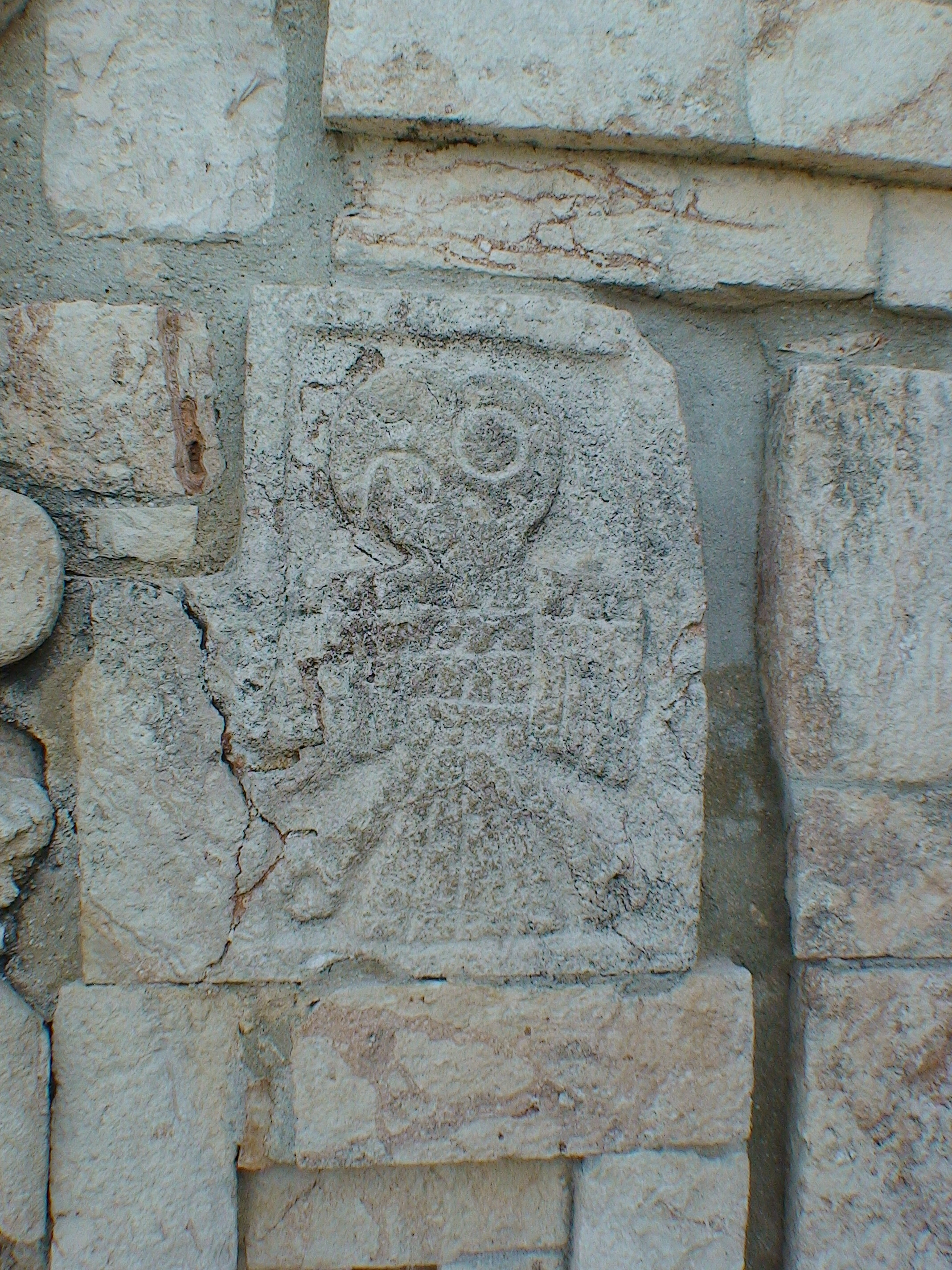 Uxmal, Yucatan, Mexico: Main pyramid, facade